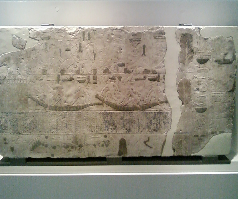 Sun temple relief; note pelicans, and trees, etc.